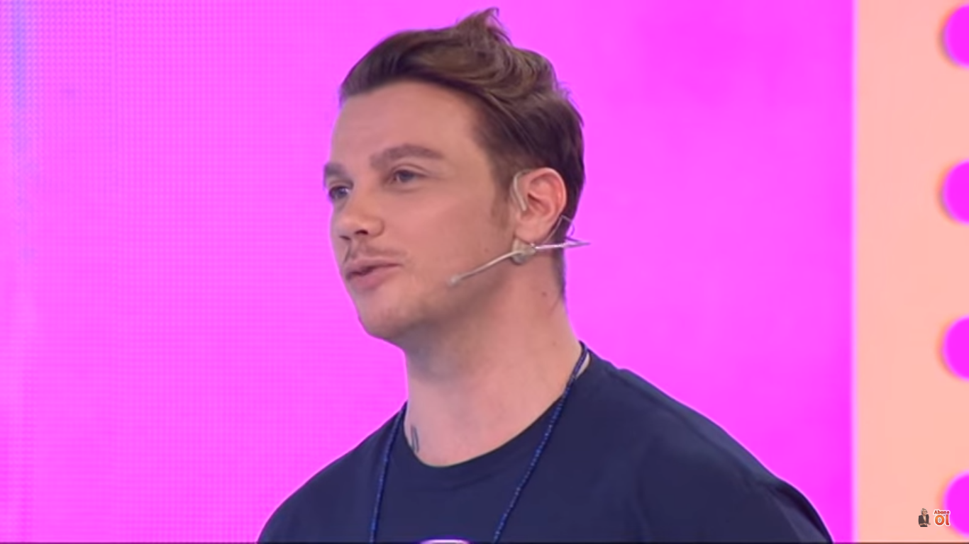 Turkish singer-songwriter Sinan Akçıl during a TV-show called İşte Benim Stilim.